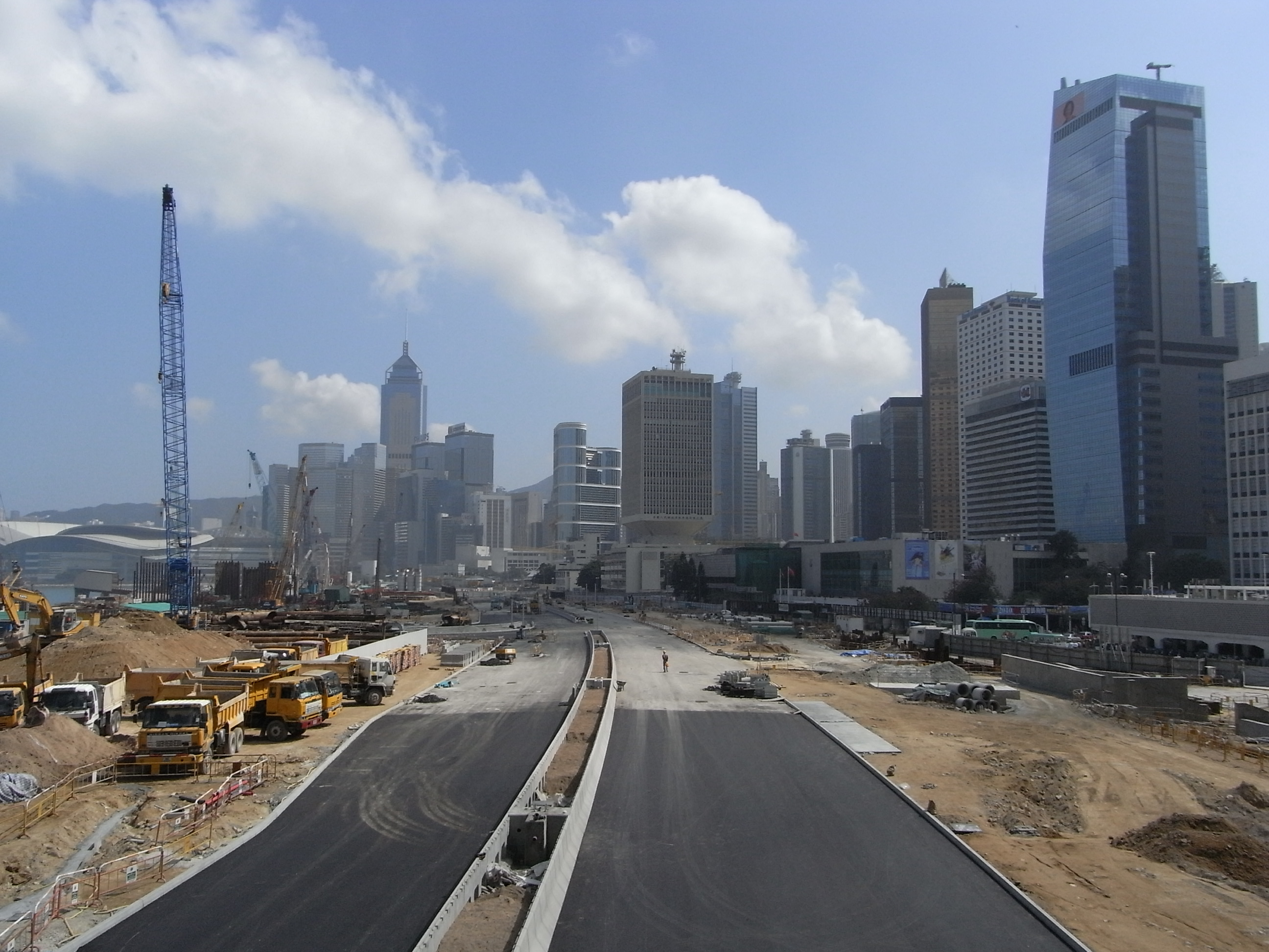 中環及灣仔填海計劃P2路（龍和道）